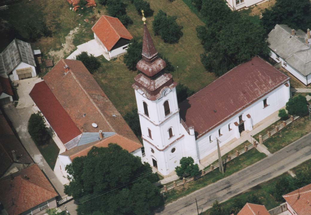 Reformed church in Biharkeresztes - Hungary - Europe